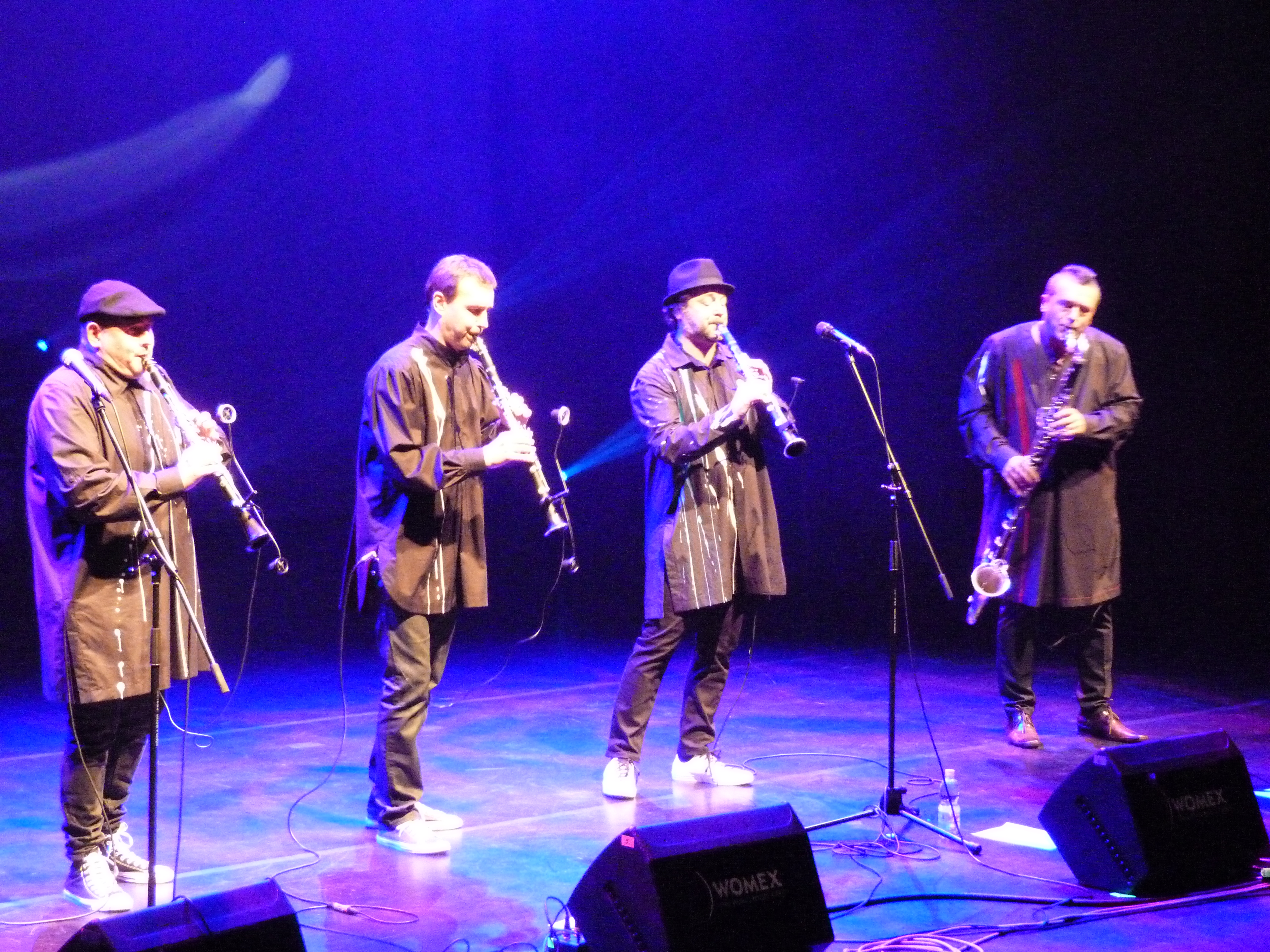 Live on the 24th of October, 2015. WOMEX 15, Budapest Hungary. Clarinet Factory. Czech Republic.